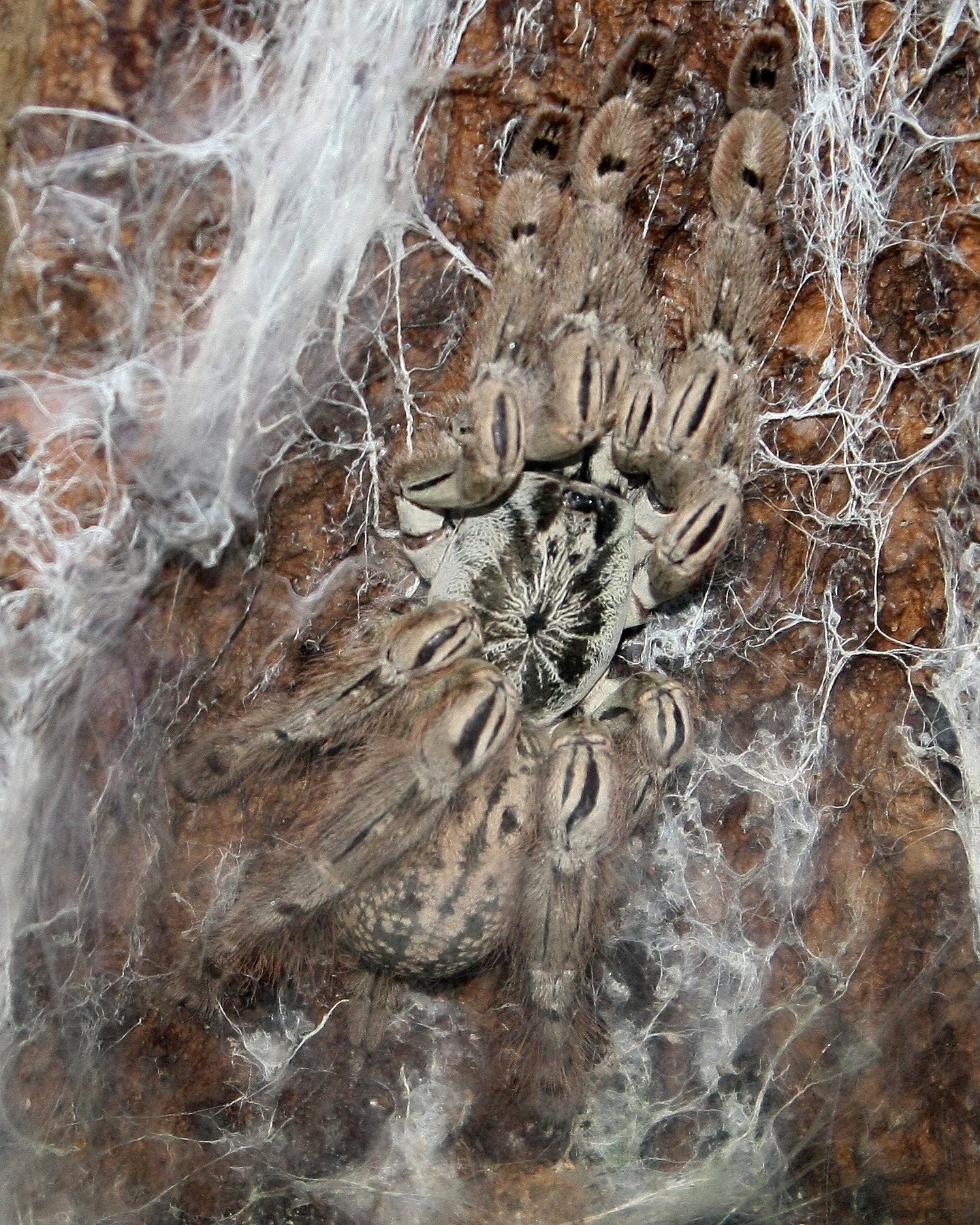 Heteroscodra maculata - taken at the Cincinnati Zoo and Botanical Garden.